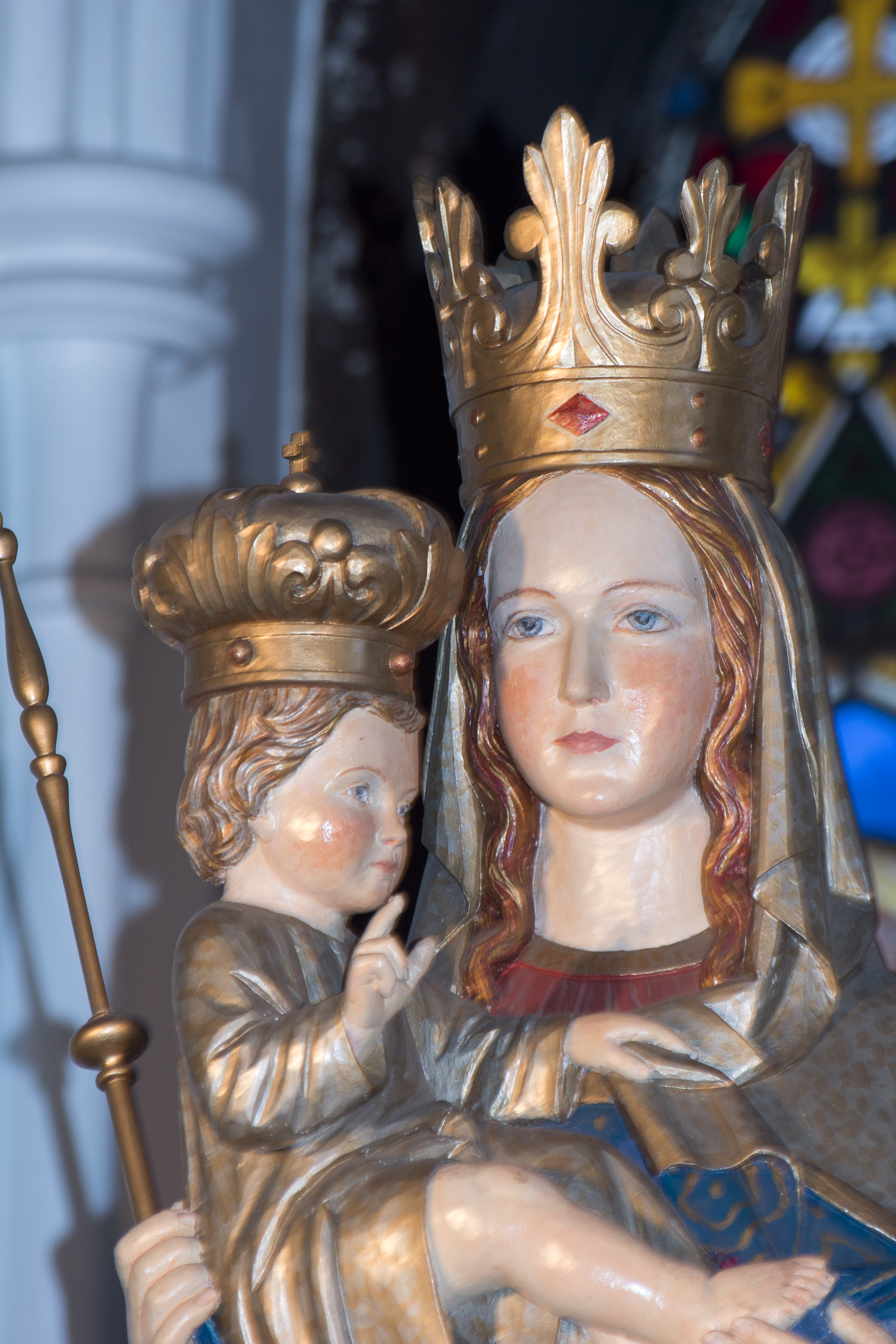 CU of Our Lady of Aberdeen in St Mary's Aberdeen